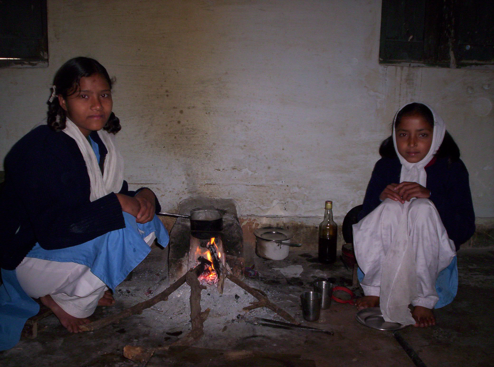 Two girls in school uniform prepare chai tea over a fire in the village of Than Gaon.